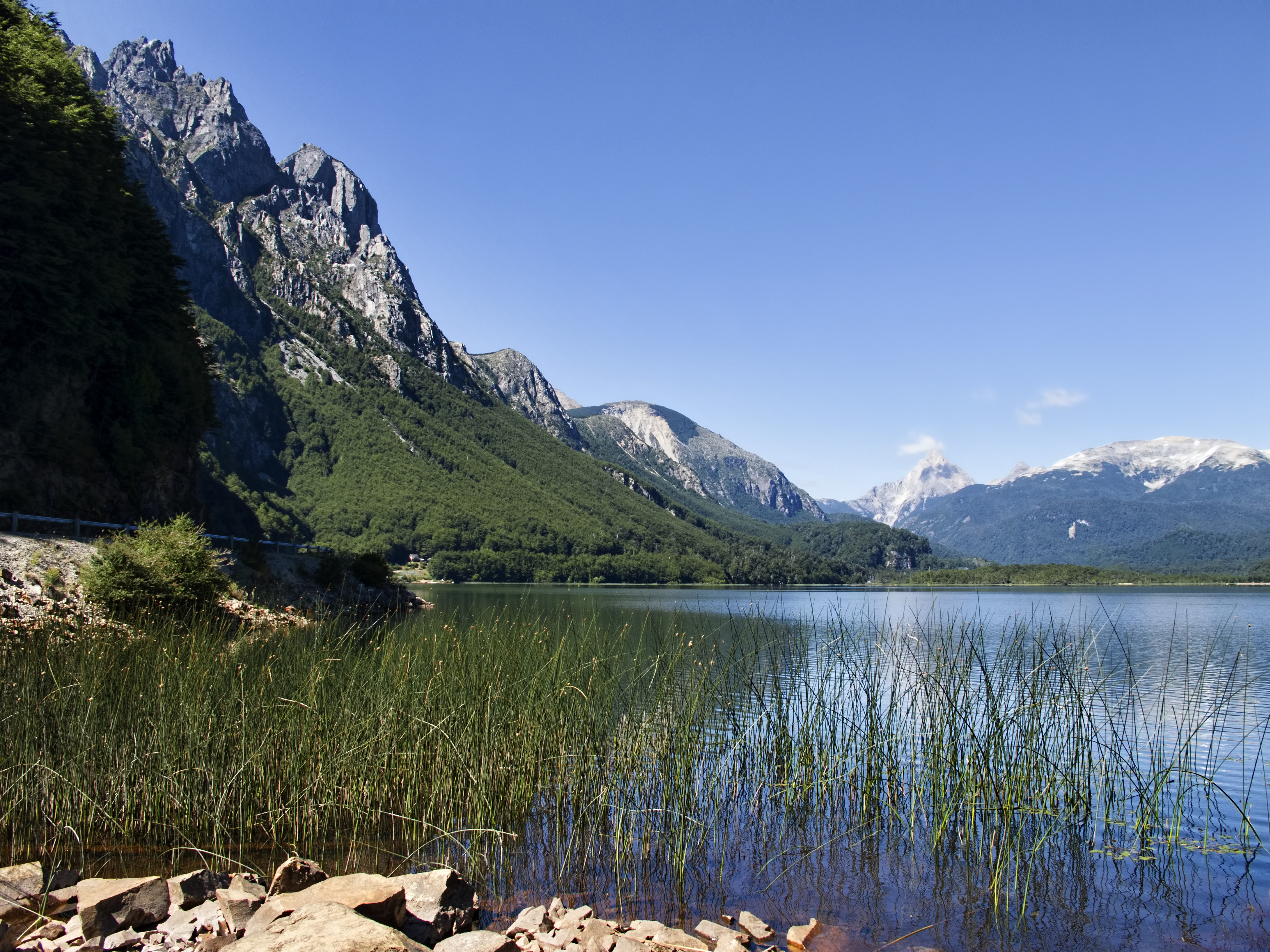 (Original description from picture's author): View from Towers Lake (Lago Las Torres) of the north face of Tower Mountain (Cerro Torre) in the distance with Cathedral Mountain (Cerro Catedral) rising up from the lake shore on the left.